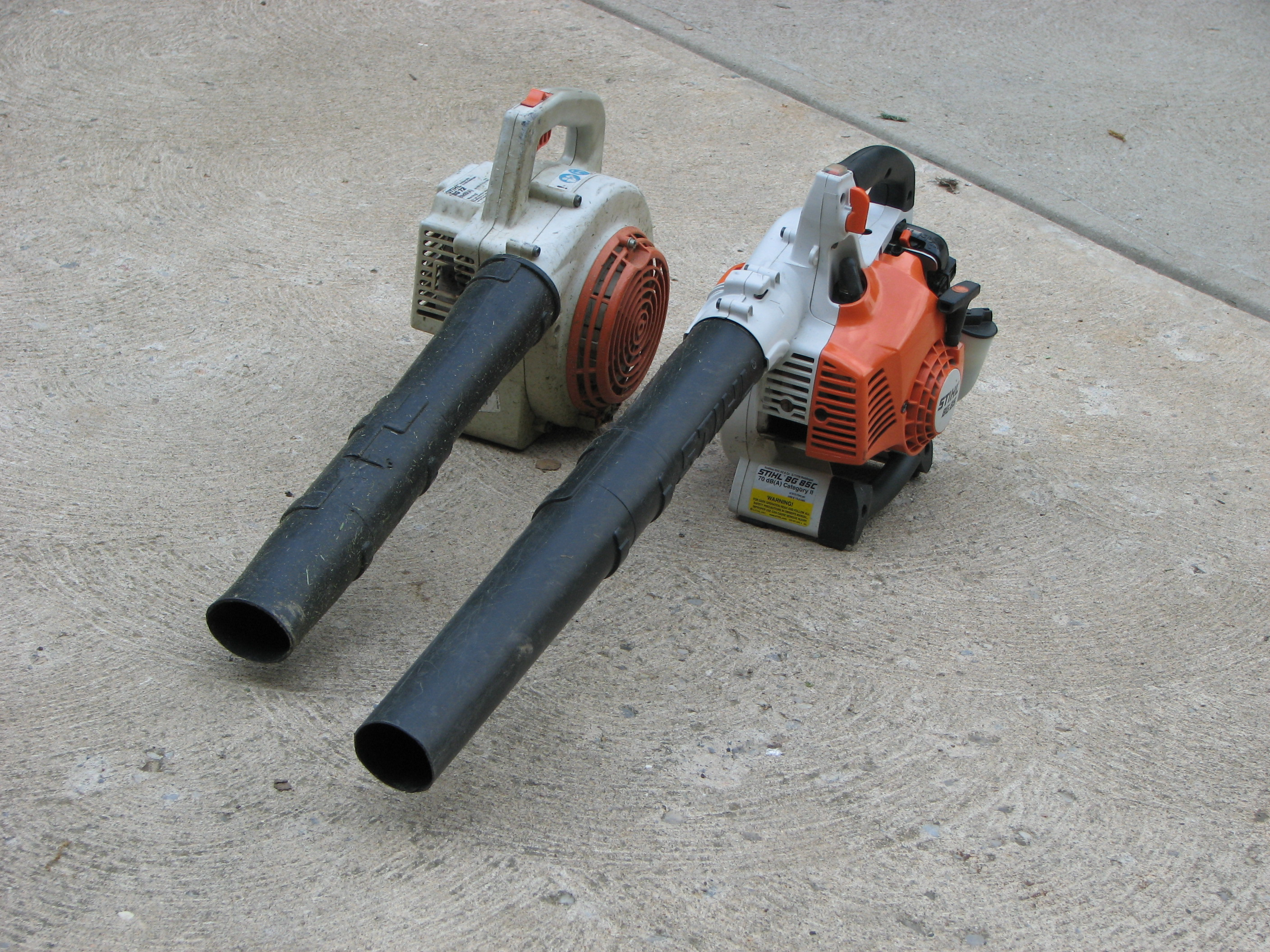 Pictured are two examples of Stihl's leaf blower line. On the left is a mid-1990s model BG72 (with tube cut down) and on the right is a 2005 model BG85. Notice that both blowers do not really have any similarities.